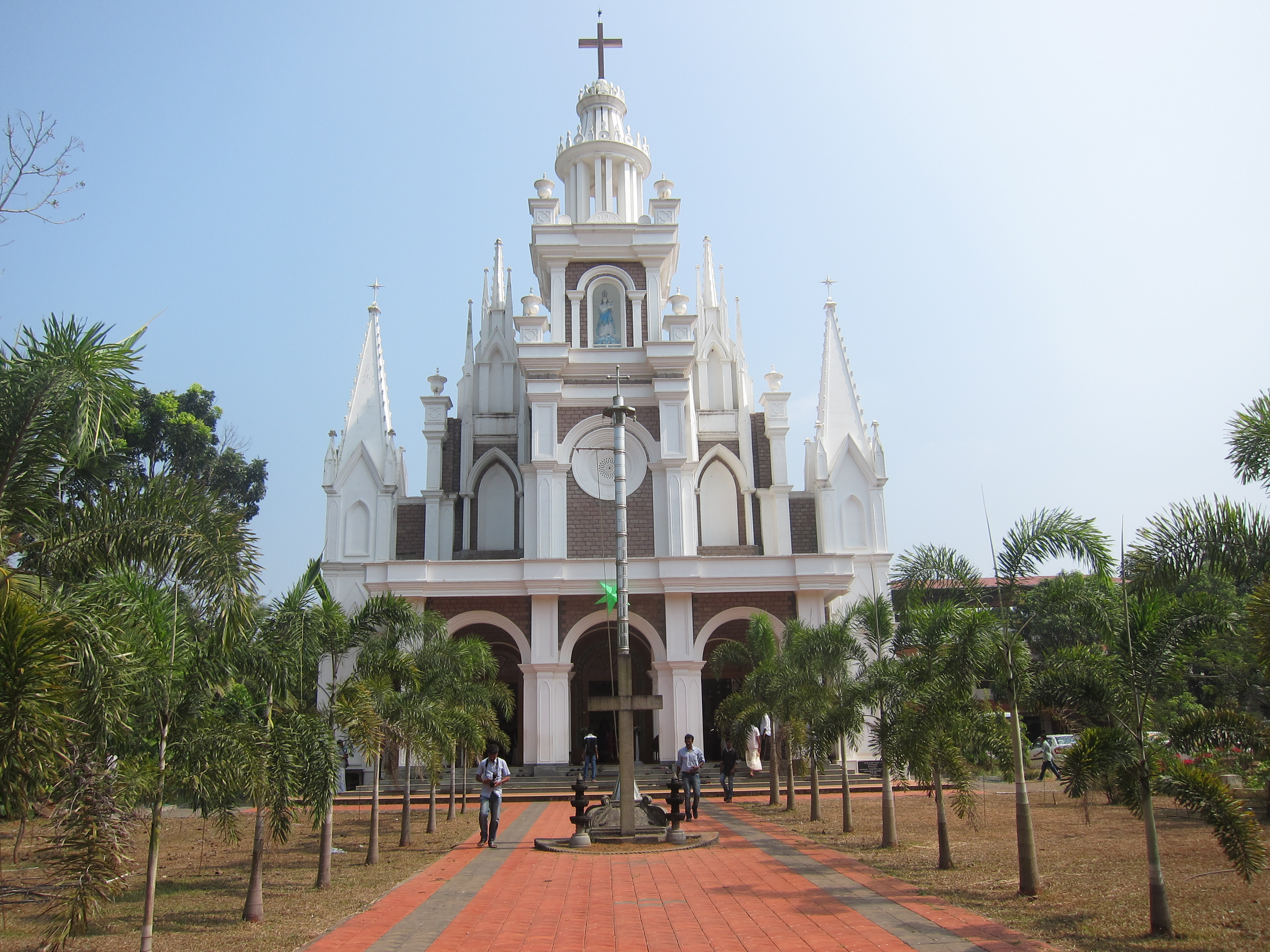 St: Mary's Church, Parekkattukara, Kodakara Irinjalakuda Diocese Syro-Malabar Catholic Church സെന്റ് മേരീസ് ചർച്ച്, പാറേക്കാട്ടുകര, കൊടകര ഇരിങ്ങാലക്കുട രൂപത സീറോ-മലബാർ കത്തോലിക്ക സഭ